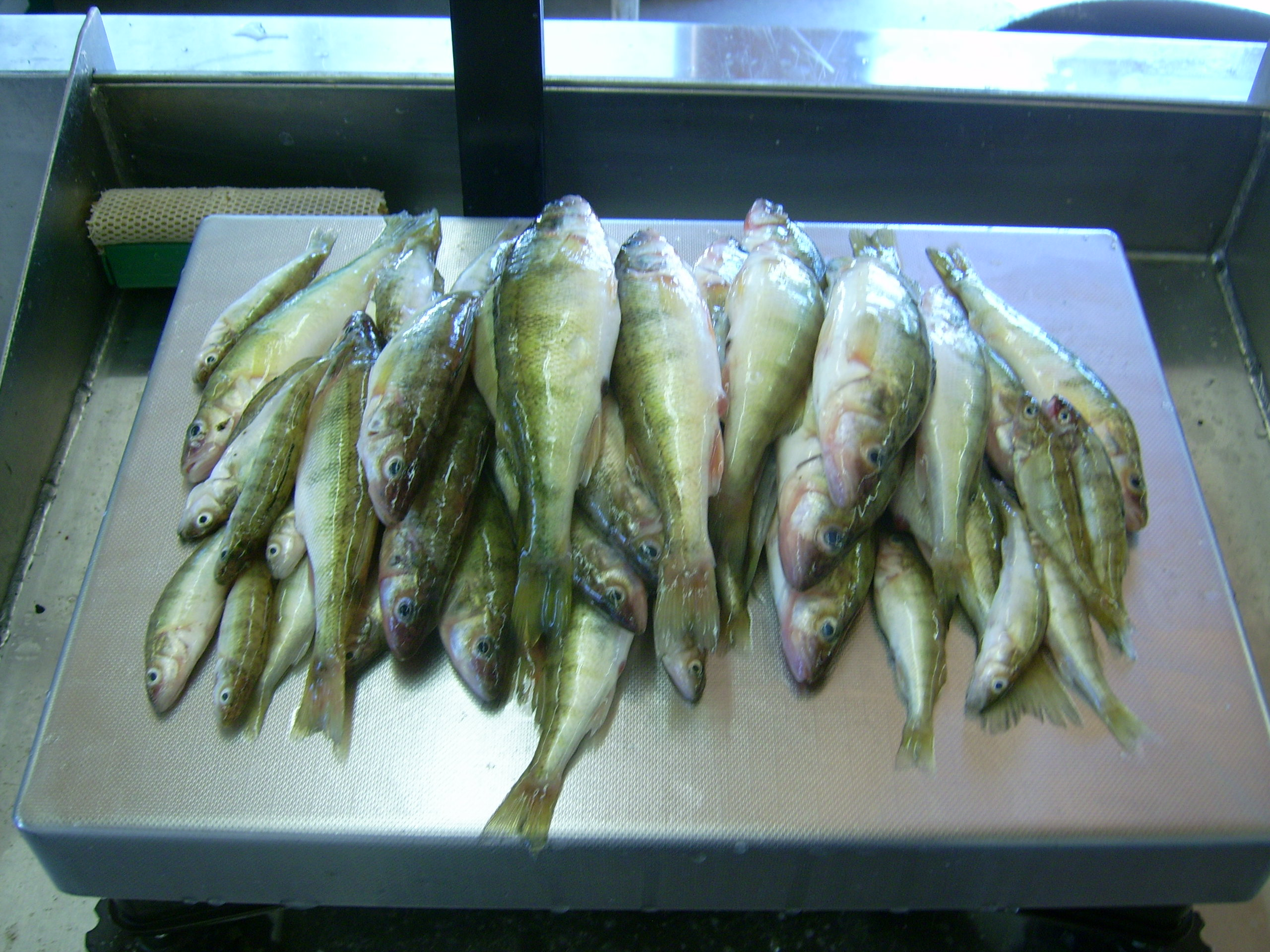 Yellow perch (Perca flavescens), Goulais Bay, Lake Superior